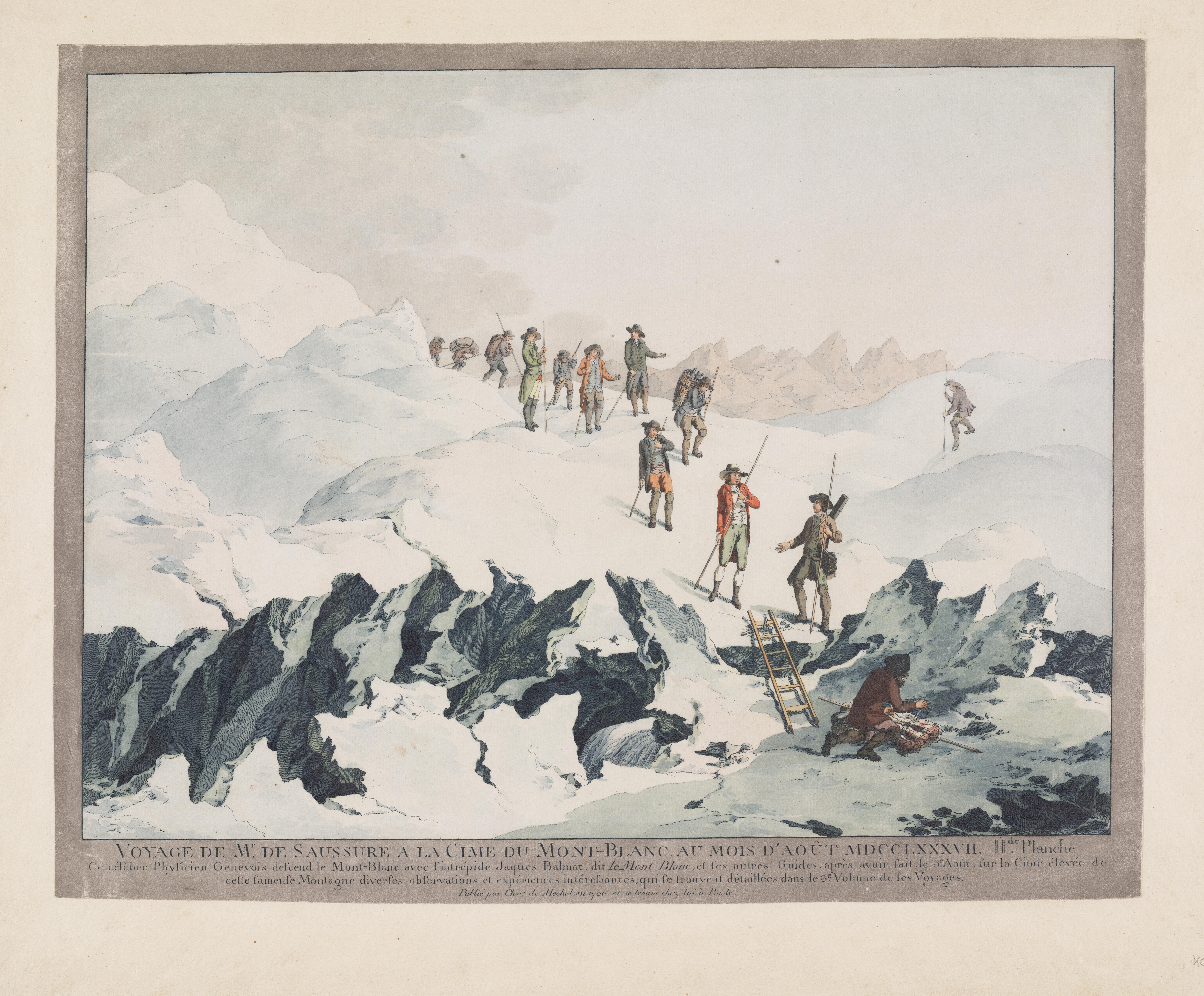 Christian von Mechel, Descent from Mont-Blanc in 1787 by H.B. de Saussure, copper engraving, coloured, 380 x 483 mm. Collection Teylers Museum, Haarlem, The Netherlands.